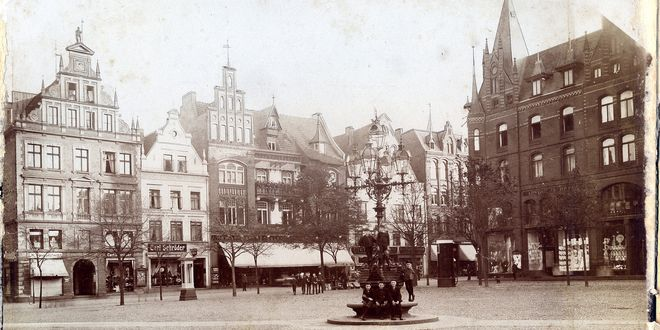 Old market of Lüneburg opposite the City Hall, pre-war situation before the Kaufhof/Karstadt was built.